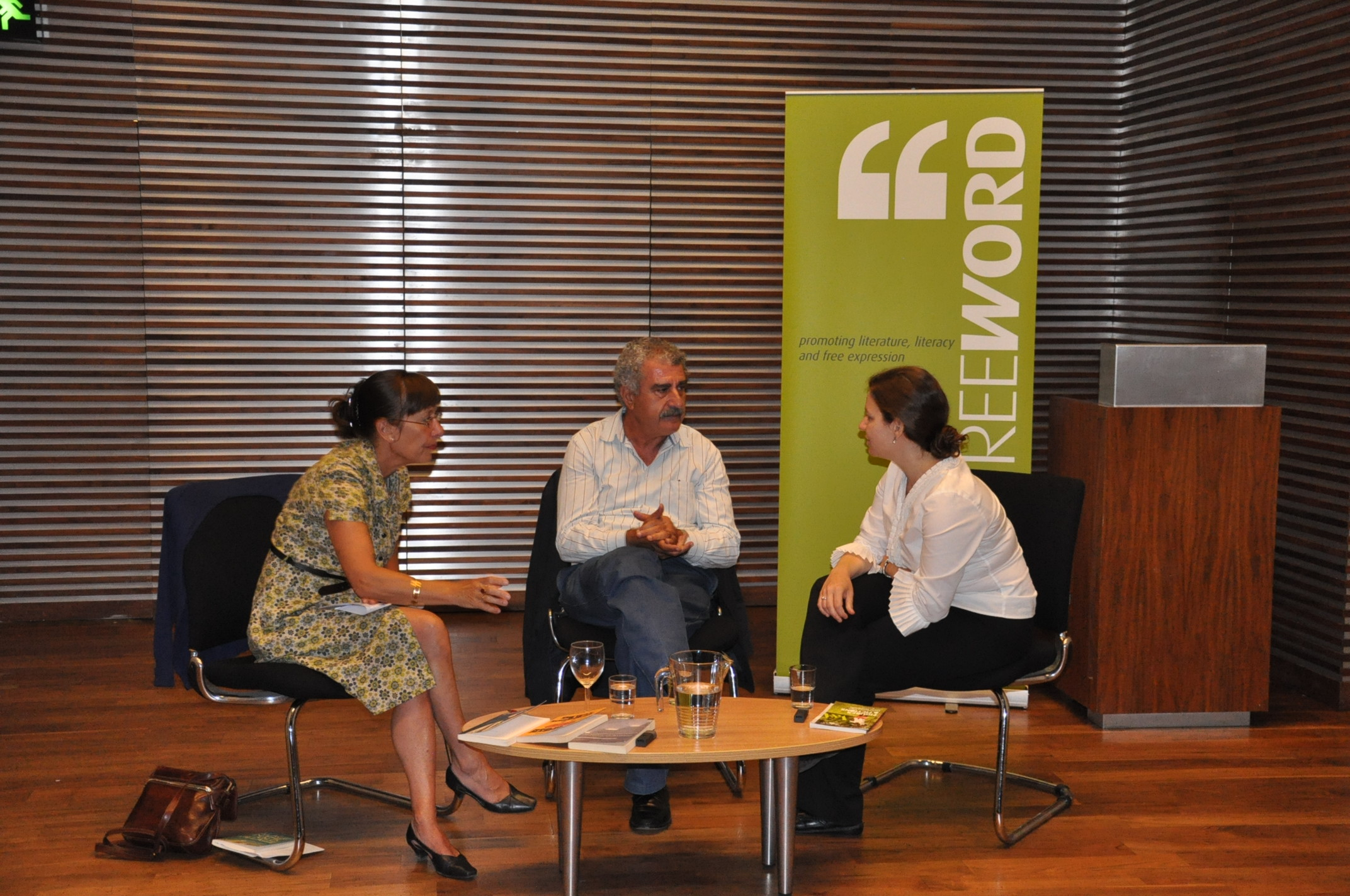 Hassan Daoud at the Shubbak festival, July 2011 London